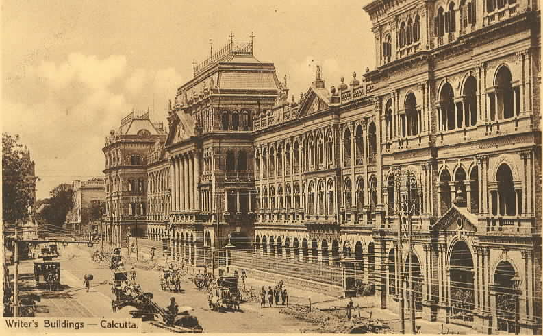 Writers Building This was the headquarters of the Civil Service and Civil Servants were always called "writers." It is now the administrative headquarters of Bengal.